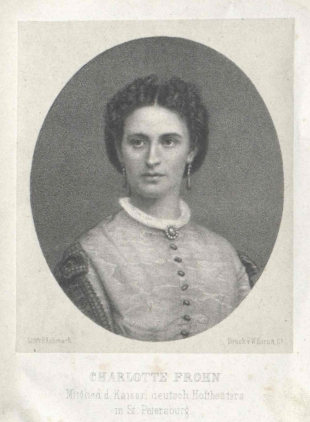 Charlotte Frohn (1844–1888)